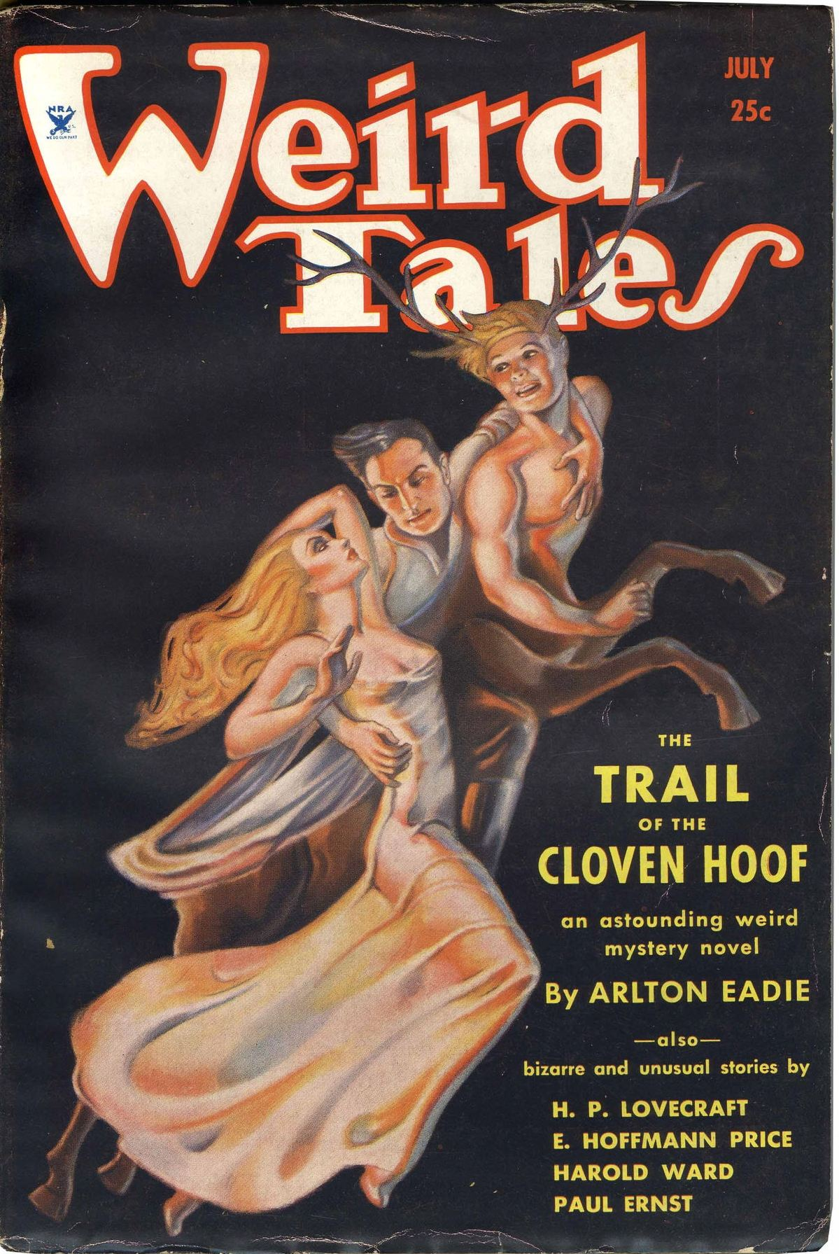 Cover of the pulp magazine Weird Tales (July 1934, vol. 24, no. 1) featuring Trail of the Cloven Hoof by Arlton Eadie. Cover by Margaret Brundage.